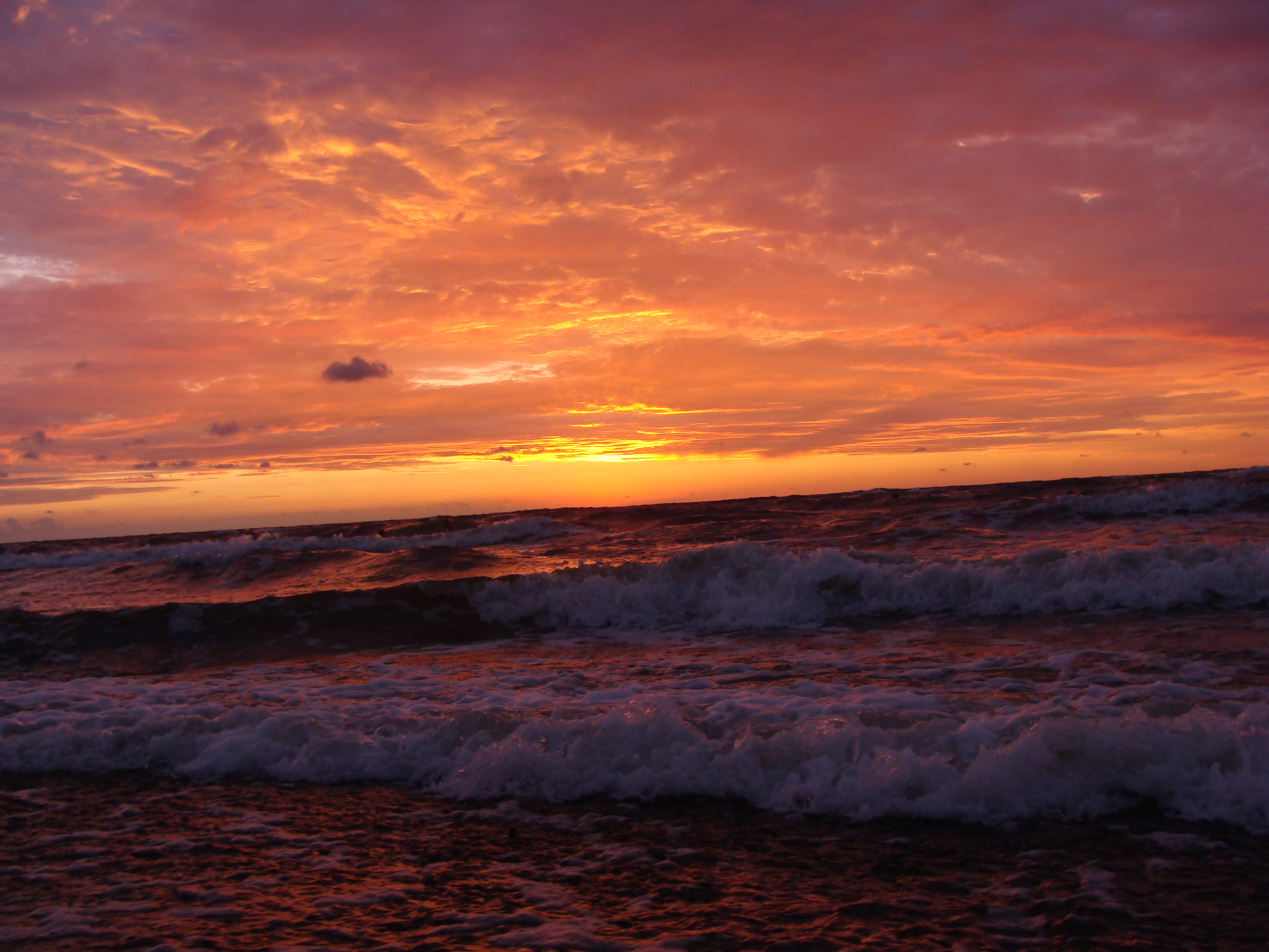 Sunset at Baltic Sea, Summer 2010.